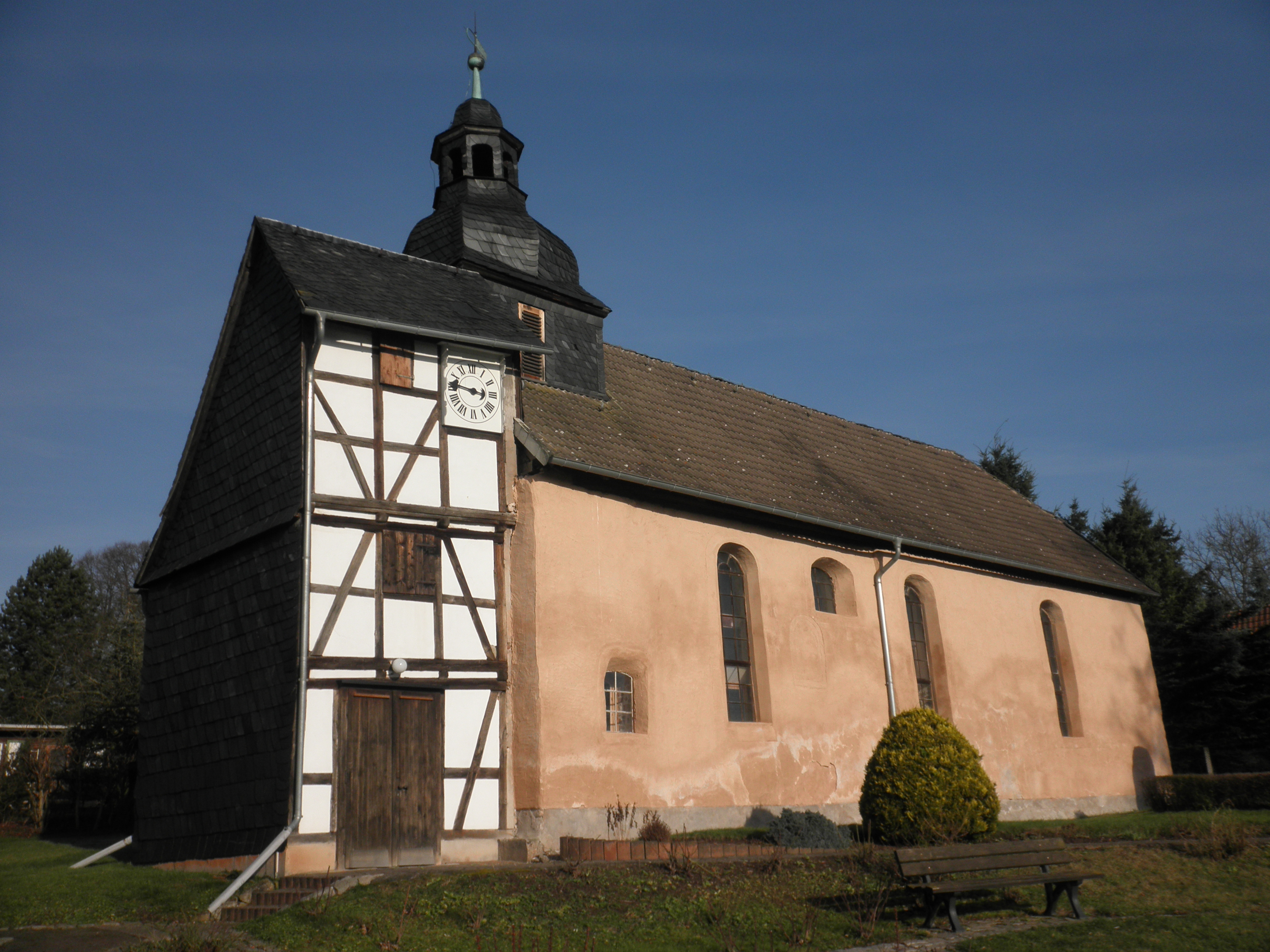 Church in Herreden in Thuringia